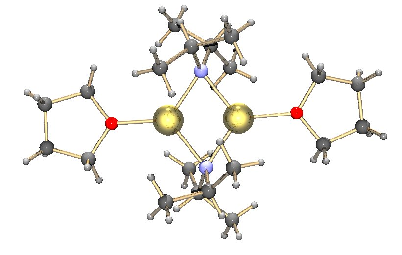 Dimer of lithium diisopropyl amide in THF.